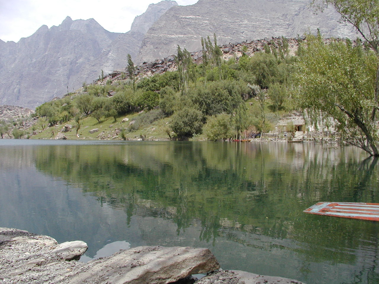 Upper Kachura Lake, Skardu, Northern Areas of Pakistan. Date: 9 August 2002. Photo by Waqas Usman. More photos at and